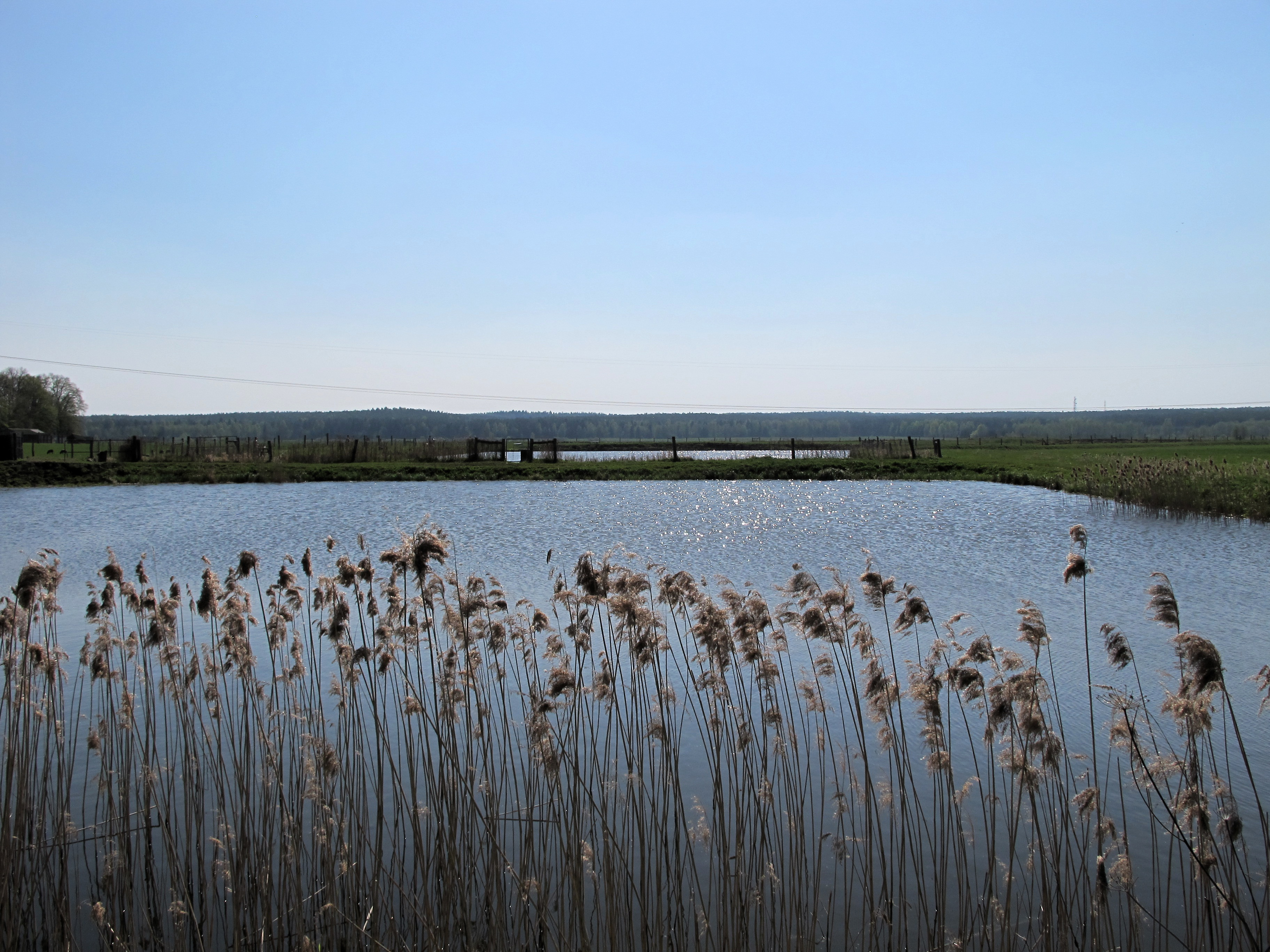 Ponds in Waliły-Dwór village, gmina Gródek, podlaskie, Poland